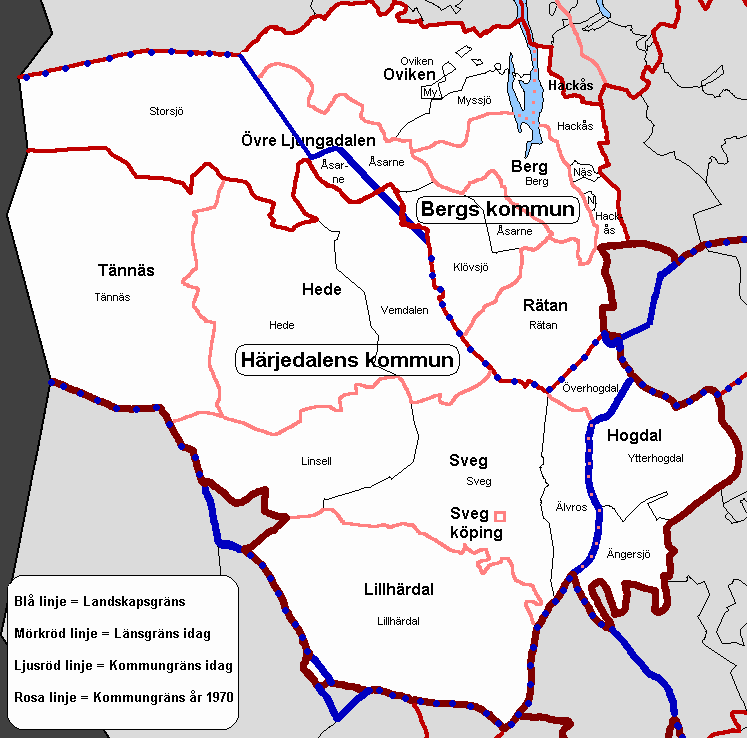 Old municipalities of Härjedalen and Berg